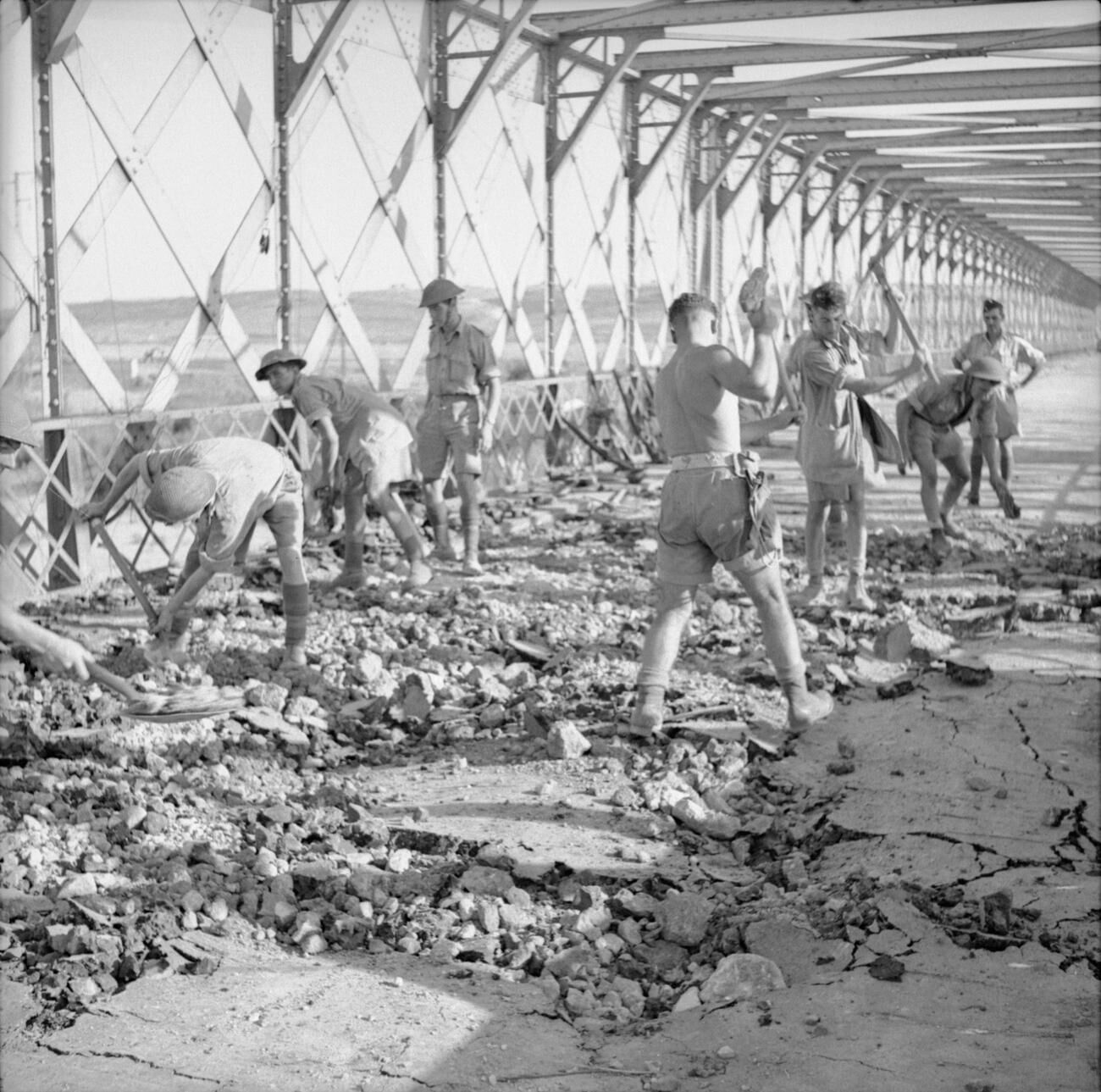 The Drive for Messina 10 July - 17 August 1943: The British advance onto the Catania Plain required the capture of the Primosole and Malati bridges before the retreating Axis forces could destroy them. Some of the fiercest fighting of the campaign took place between German and British airborne troops, supported by infantry and artillery during 13 -16 July before the British captured the bridges intact. The Royal Engineers are shown repairing damage to the Primosole Bridge over the Simeto River after its capture.